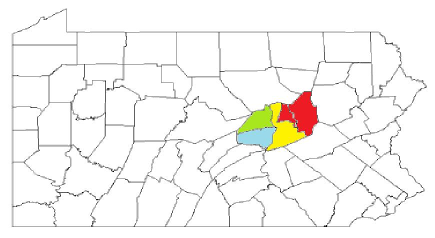 Bloomsburg Berwick Sunbury CSA updated